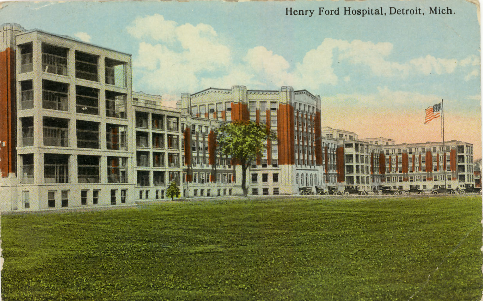 Henry Ford Hospital, Detroit. Postcard image, circa 1920.